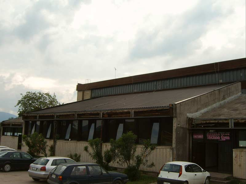 no description